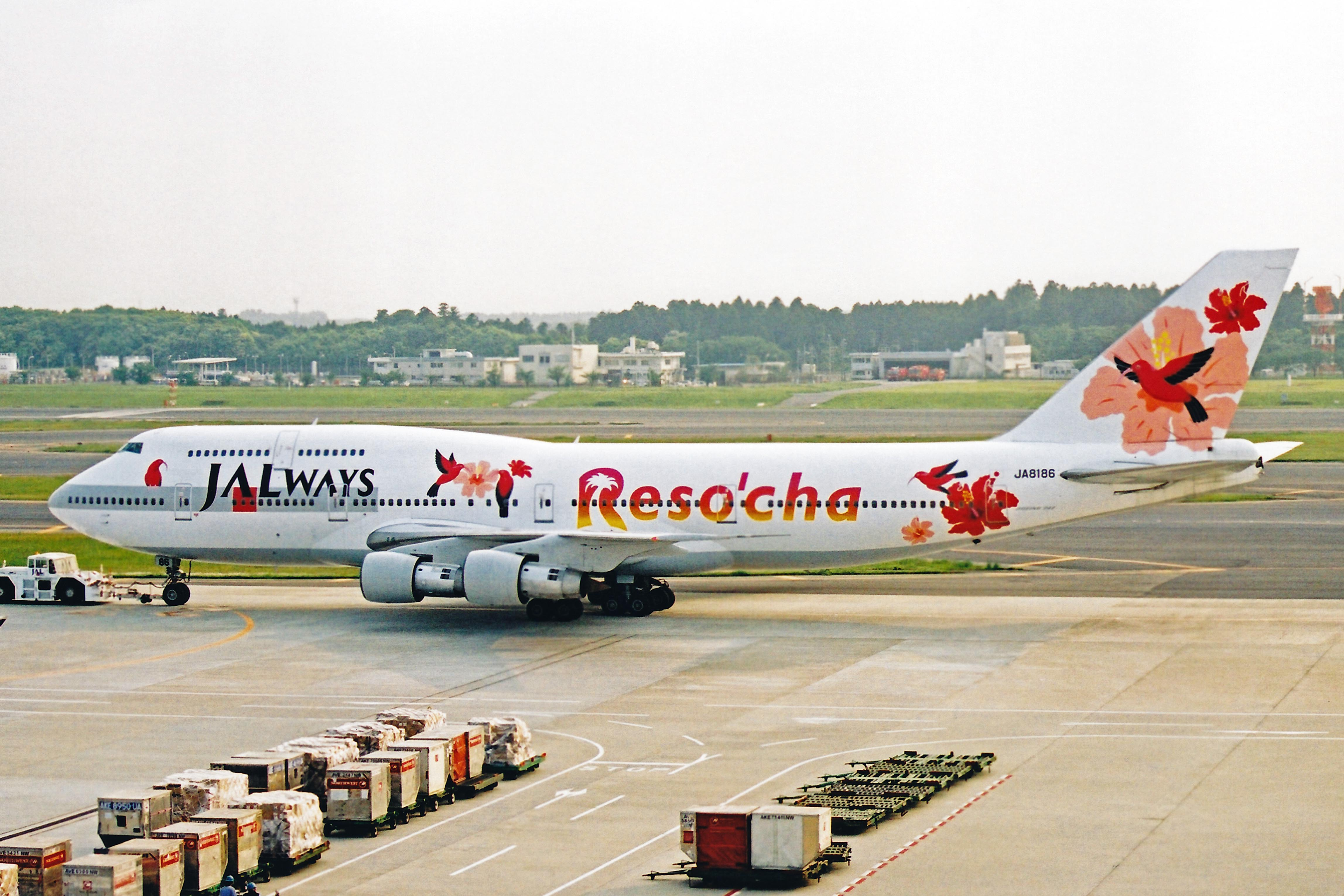 'Reso'cha Okinawa' logojet. First flown 21-Jan-88 as a B747-346SR (for Japan domestic services) with the Boeing test registration N6018N, it was converted to full B747-346 standard in Jul-99. It was returned to JAL mainline in Sep-08. Sold to Orient Thai Airways in Oct-08 as HS-UTS and sold on in Apr-09 to Max Air Nigeria as 5N-MBB. My database has no sightings since Sep-09 when it was noted stored at Jakarta (CGK), Indonesia. (see comment below, thank's Nige!)